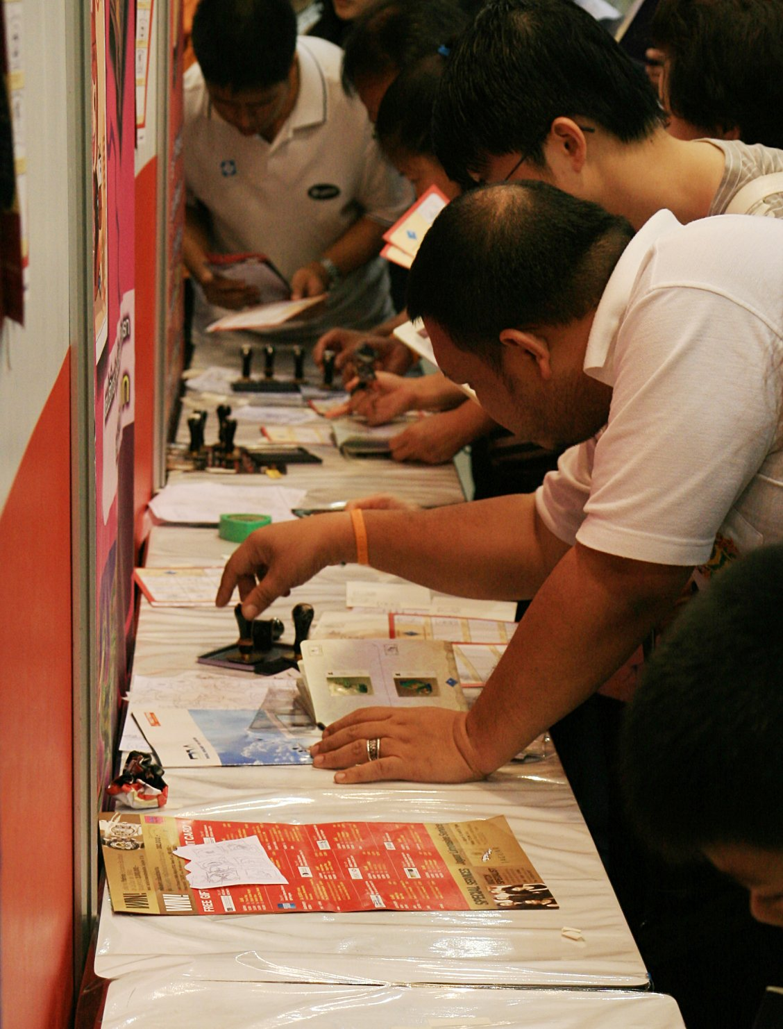 People obtained souvenir mark on passport. From The 20th annual Asian International Philatelic Exhibition (BANGKOK 2007) held at Paragon Hall, Siam Paragon, Bangkok, during 3-12 August 2007.